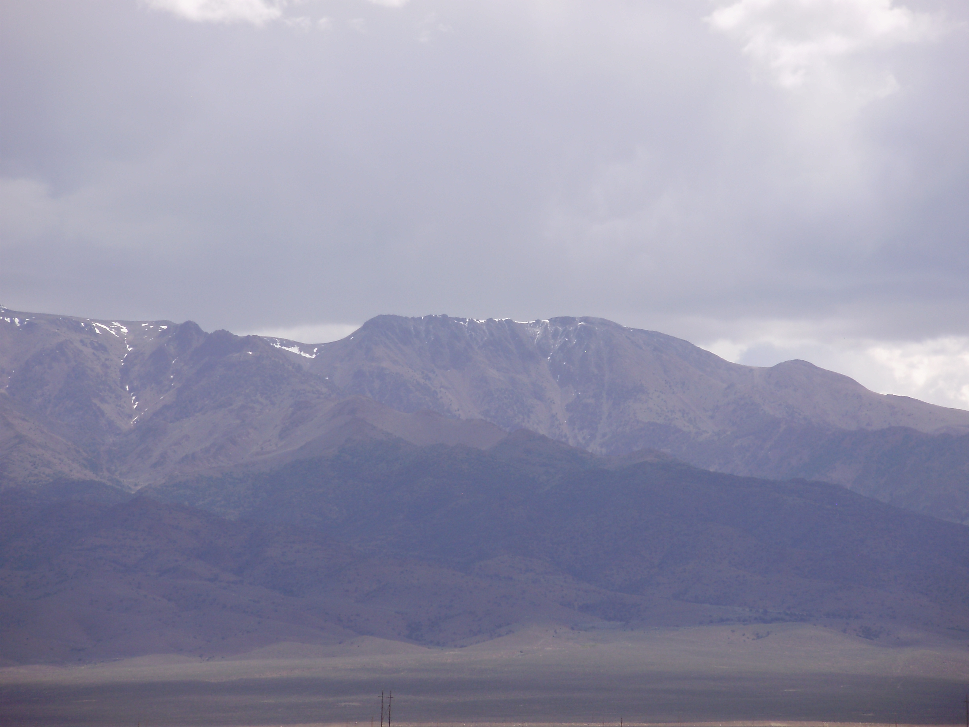 View of Mount Jefferson, Nevada from the junction of Nevada State Route 376 and Round Mountain Road